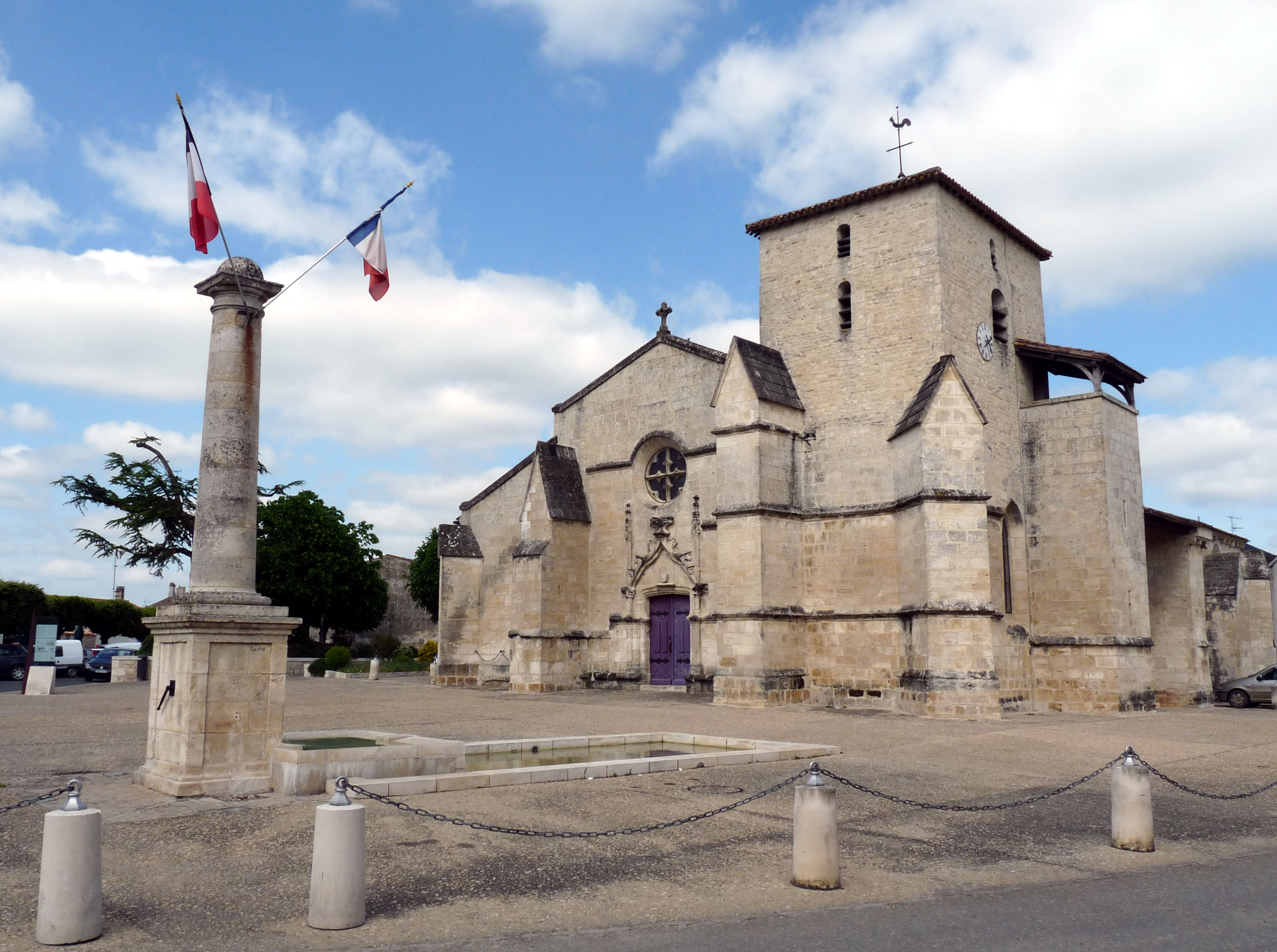 Church of Coulon (Deux-Sèvres)